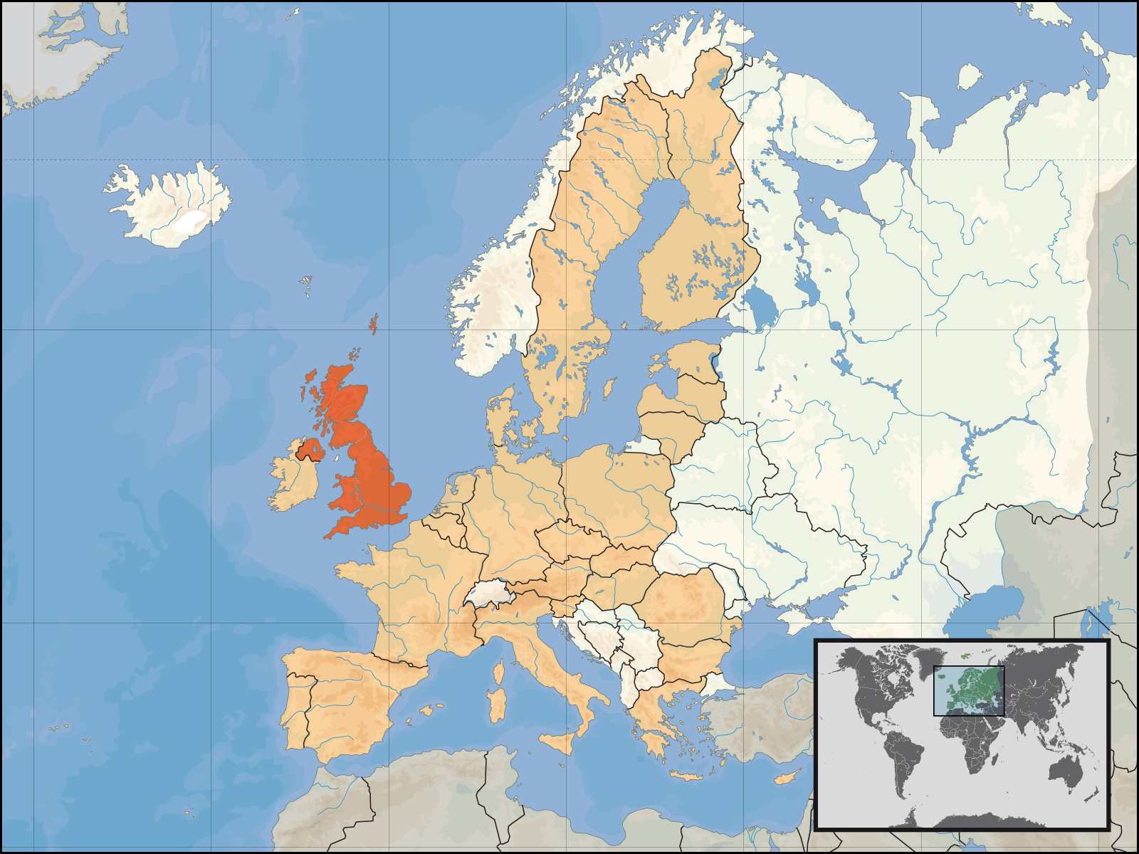 Location of the United Kingdom within Europe and the European Union on the 1st of January 2007.